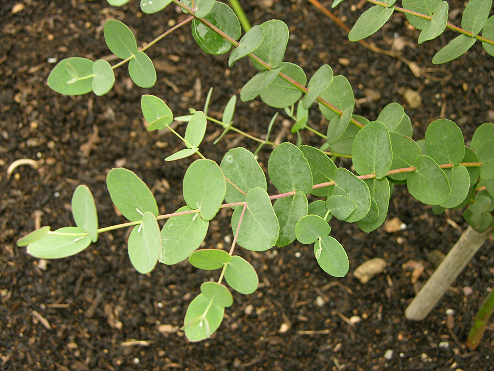 Picture of a branch of the Eucalyptus gunni 'Silver Drop'. Photo taken at the Chanticleer Garden where it was identified.